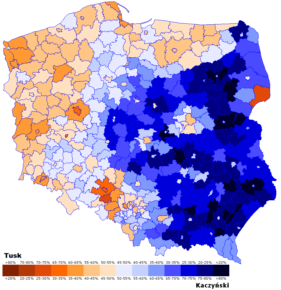 Polish presidential election, 2005 - results of the II round by counties